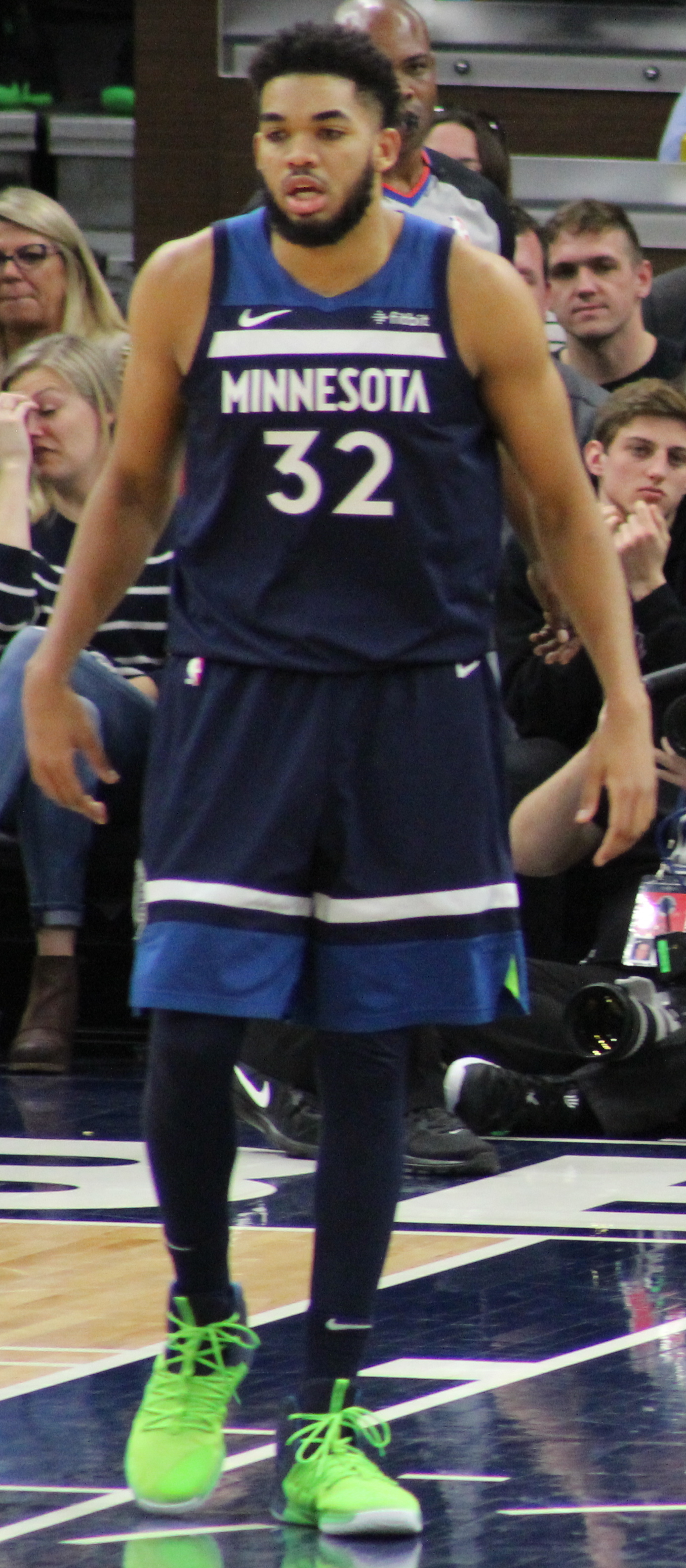 Karl-Anthony Towns of the Minnesota Timberwolves